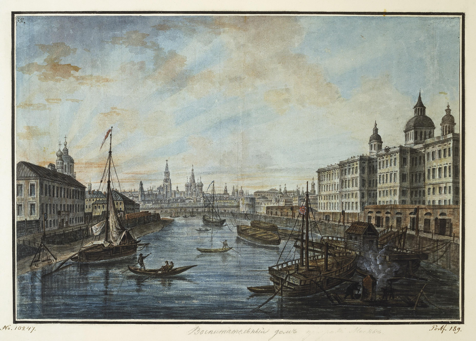 en: Fedor Alekseev Title